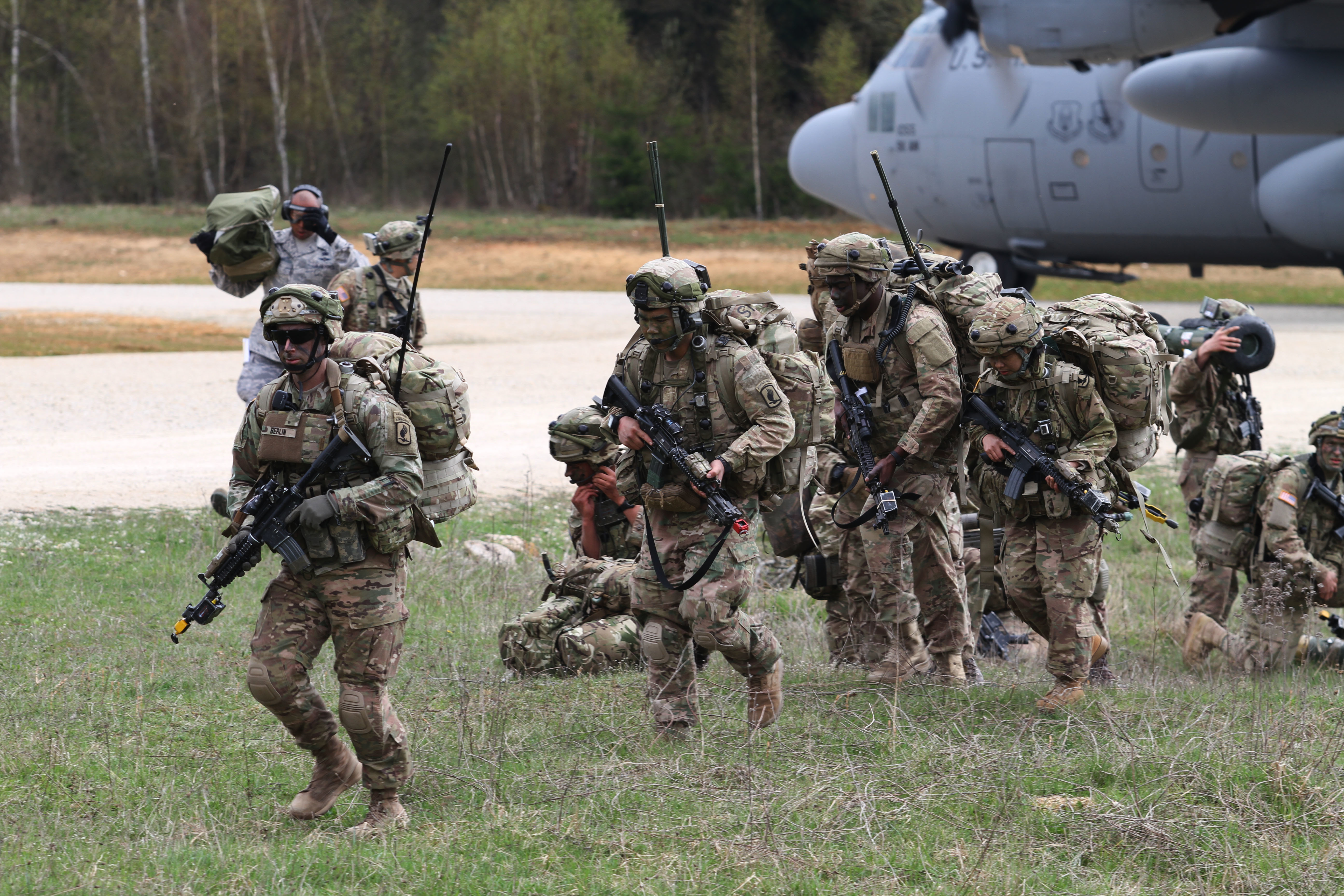 Airmen from the 321st Special Tactics Squadron, out of the Royal Air Force Station in Suffolk, England and Soldiers from the 173rd Airborne Brigade out of Vicenza, Italy, conduct fast-paced landing and take-off maneuvers for several hours, refining their timing, efficiency, and communication, for Saber Junction 16. SJ16 is the U.S. Army Europe’s 173rd Airborne Brigade’s combat training center certification exercise, taking place at the Joint Multinational Readiness Center in Hohenfels, Germany, March 31-April 24, 2016. The exercise is designed to evaluate the readiness of the Army’s Europe-based combat brigades to conduct unified land operations and promote interoperability in a joint, multinational environment. SJ16 includes nearly 5,000 participants from 16 NATO and European partner nations. (U.S. Army photo by Spc. Sarah K. Anwar) Unit: 100th Mobile Public Affairs Detachment